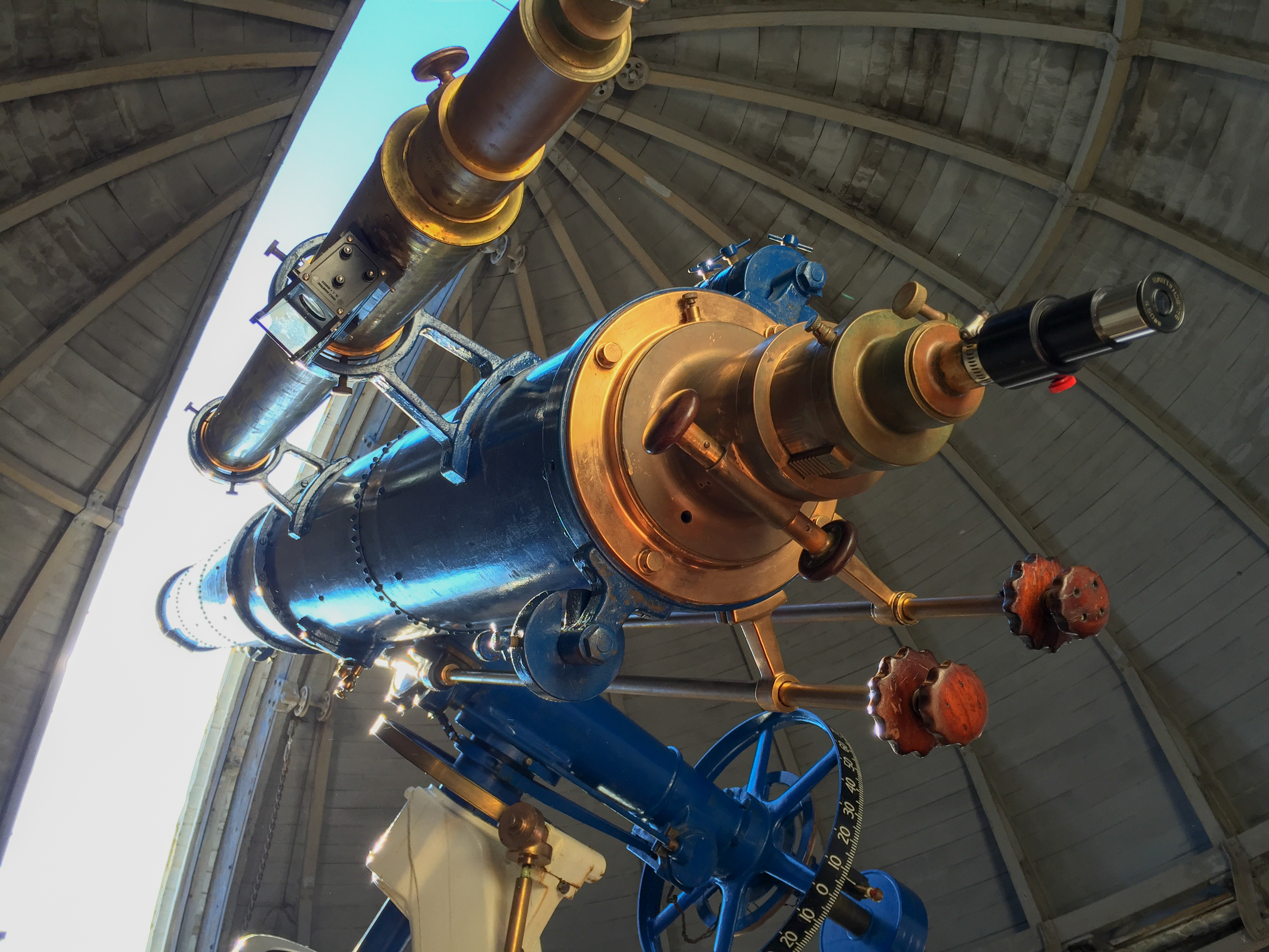 12", f/15 refractor at Cornell University's Fuertes Observatory